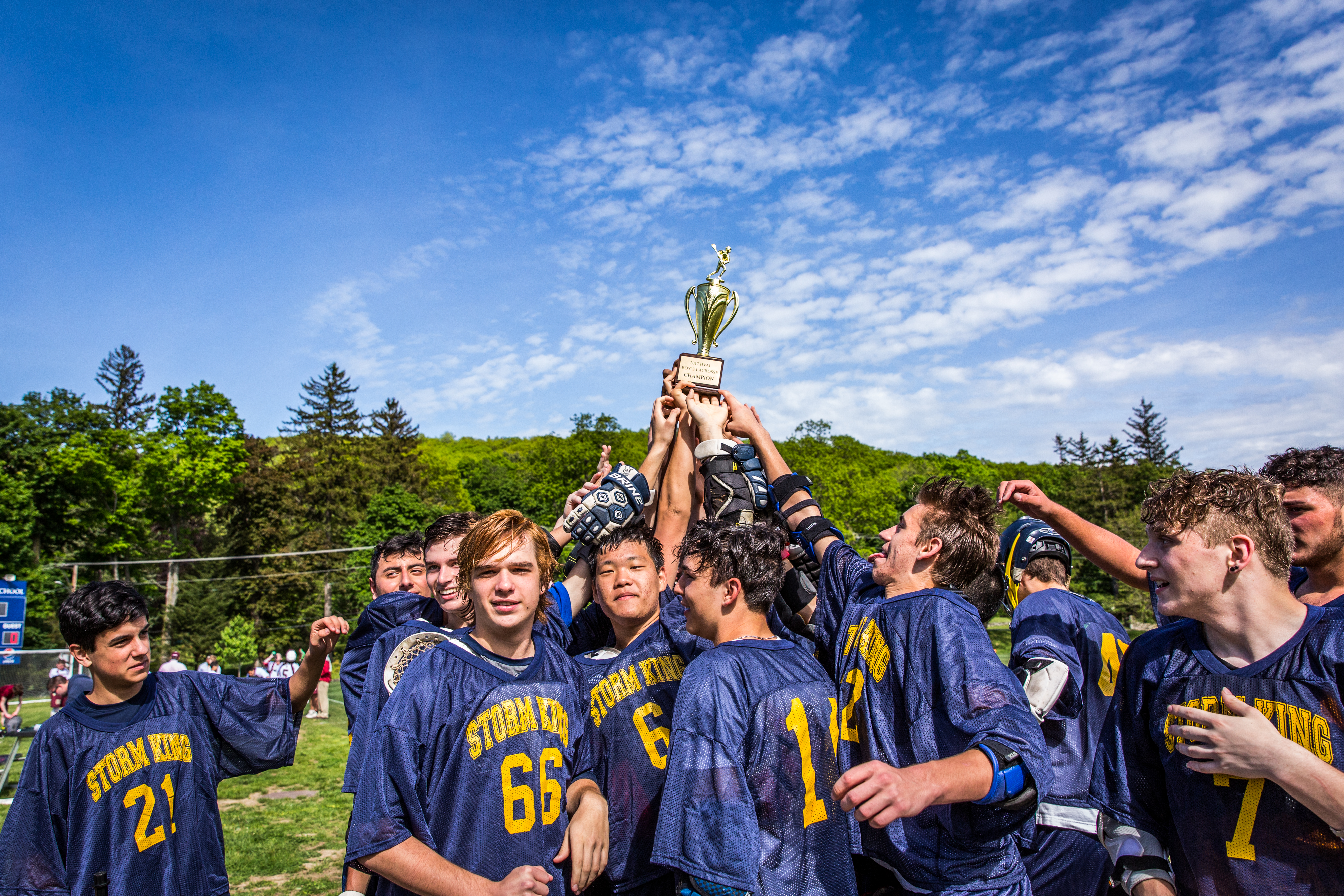 Storm King Lacrosse team captures the league title